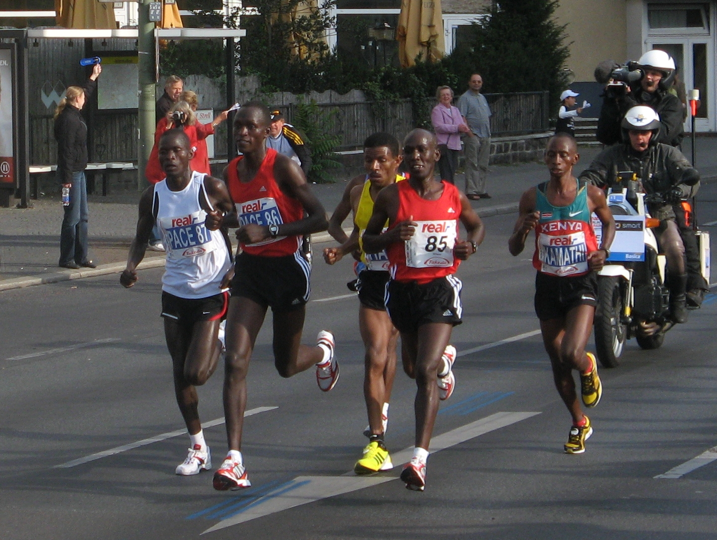 Berlin-Marathon 2008, Abel Kirui (DNF), Elijah Keitani (DNF), Haile Gebresselassie (later winner with a new world record), Wilson Kigen (DNF) and Charles Kamathi (later #3) leading at Kilometer 24